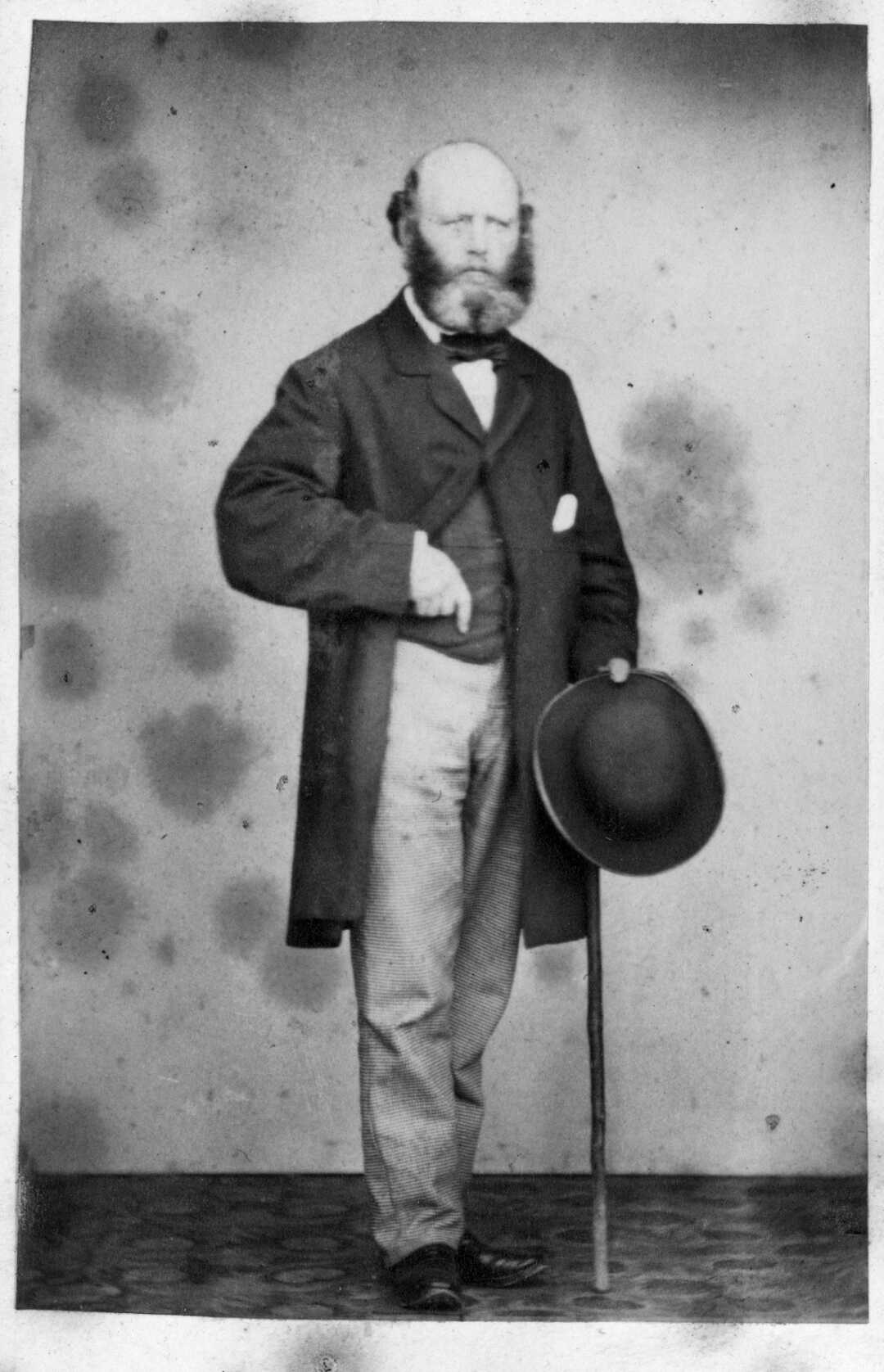 Portrait of the painter, Charles Decimus Barraud, ca 1860s Reference Number: PA1-q-036-30-3 Full length photograph of Charles Decimus Barraud Key terms: 1 image, related to Charles Decimus Barraud, New Zealand and Artists. Part of: Blundell album 1, Reference Number PA1-q-036 (2 digitised items) Blundell, John Barraud (Barry), 1904?-1975 : Photograph albums, Reference Number PAColl-8709 (10 digitised items) Extent: 1 b&w original photographic print(s)Single photograph Conditions governing access to original: Not restricted Usage: You can search, browse, print and download items from this website for research and personal study. You are welcome to reproduce the above image(s) on your blog or another website, but please maintain the integrity of the image (i.e. don't crop, recolour or overprint it), reproduce the image's caption information and link back to here ( If you would like to use the above image(s) in a different way (e.g. in a print publication), or use the transcription or translation, permission must be obtained. More information about copyright and usage can be found on the Copyright and Usage page of the NLNZ web site.